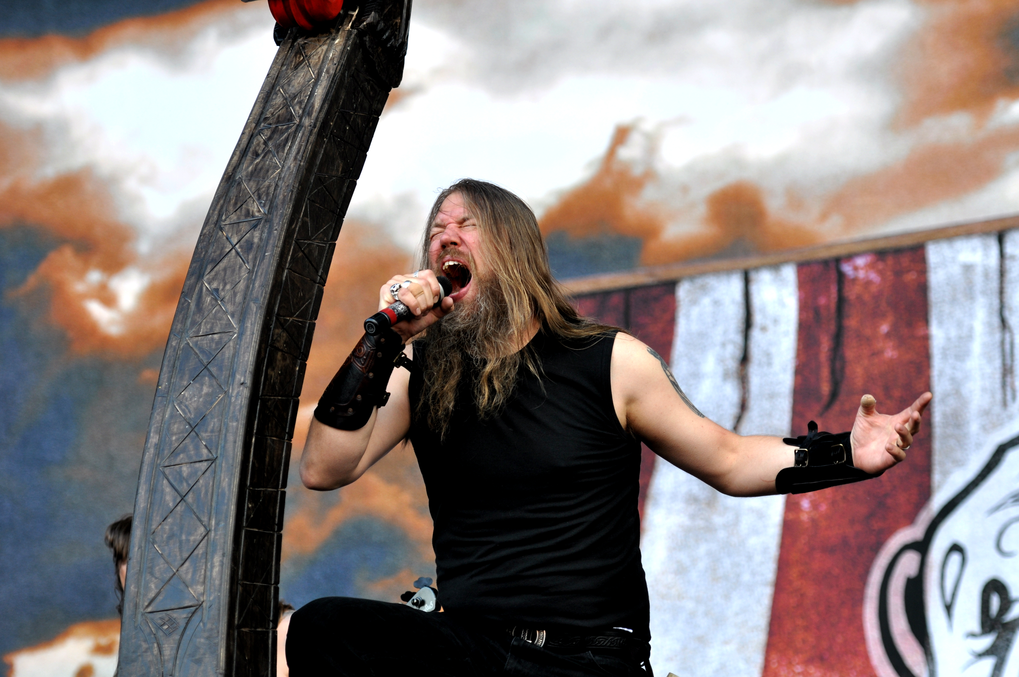 Amon Amarth at Rock am Ring 2013